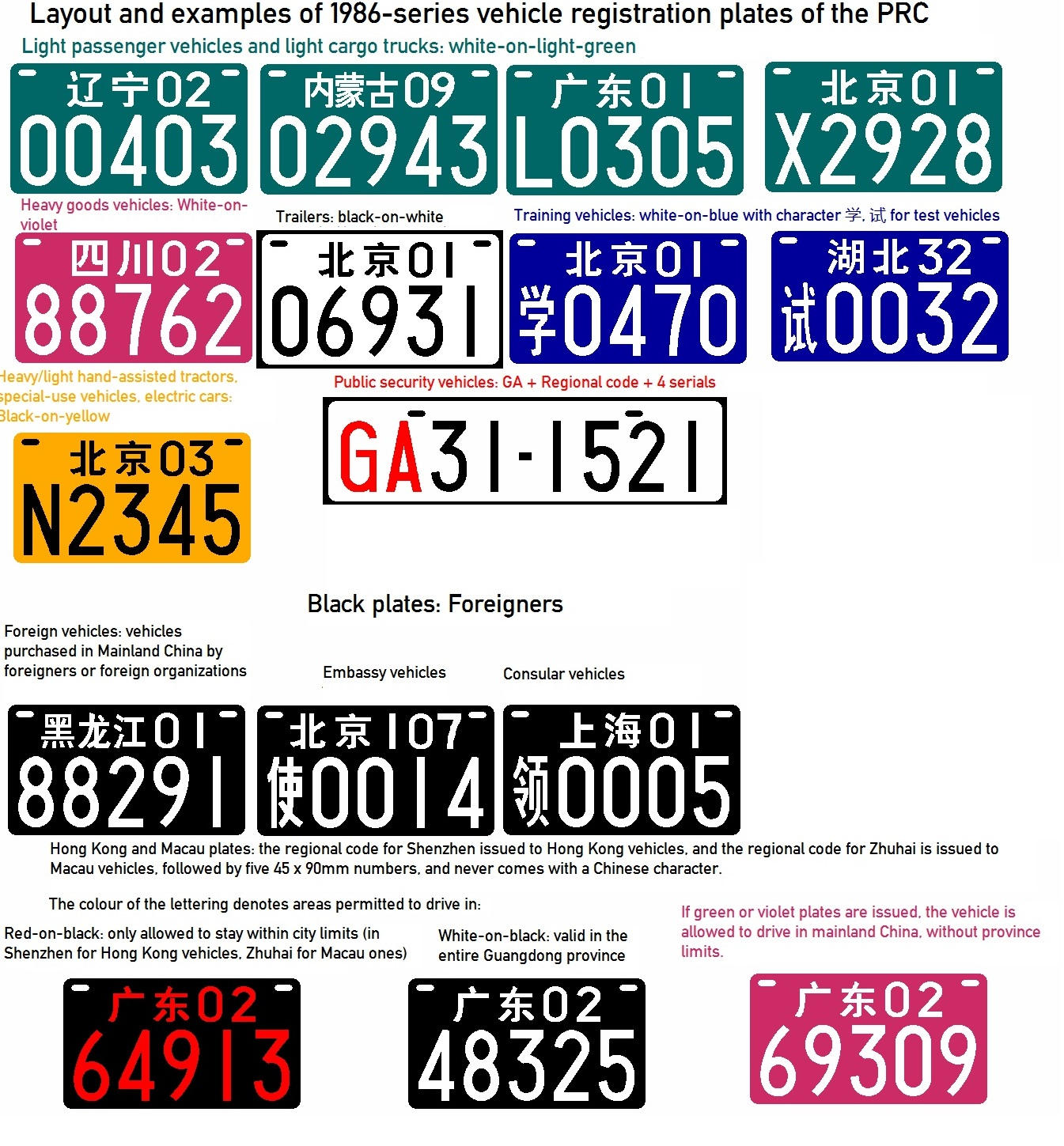 Translated version of the China1986plateLayoutExample.gif